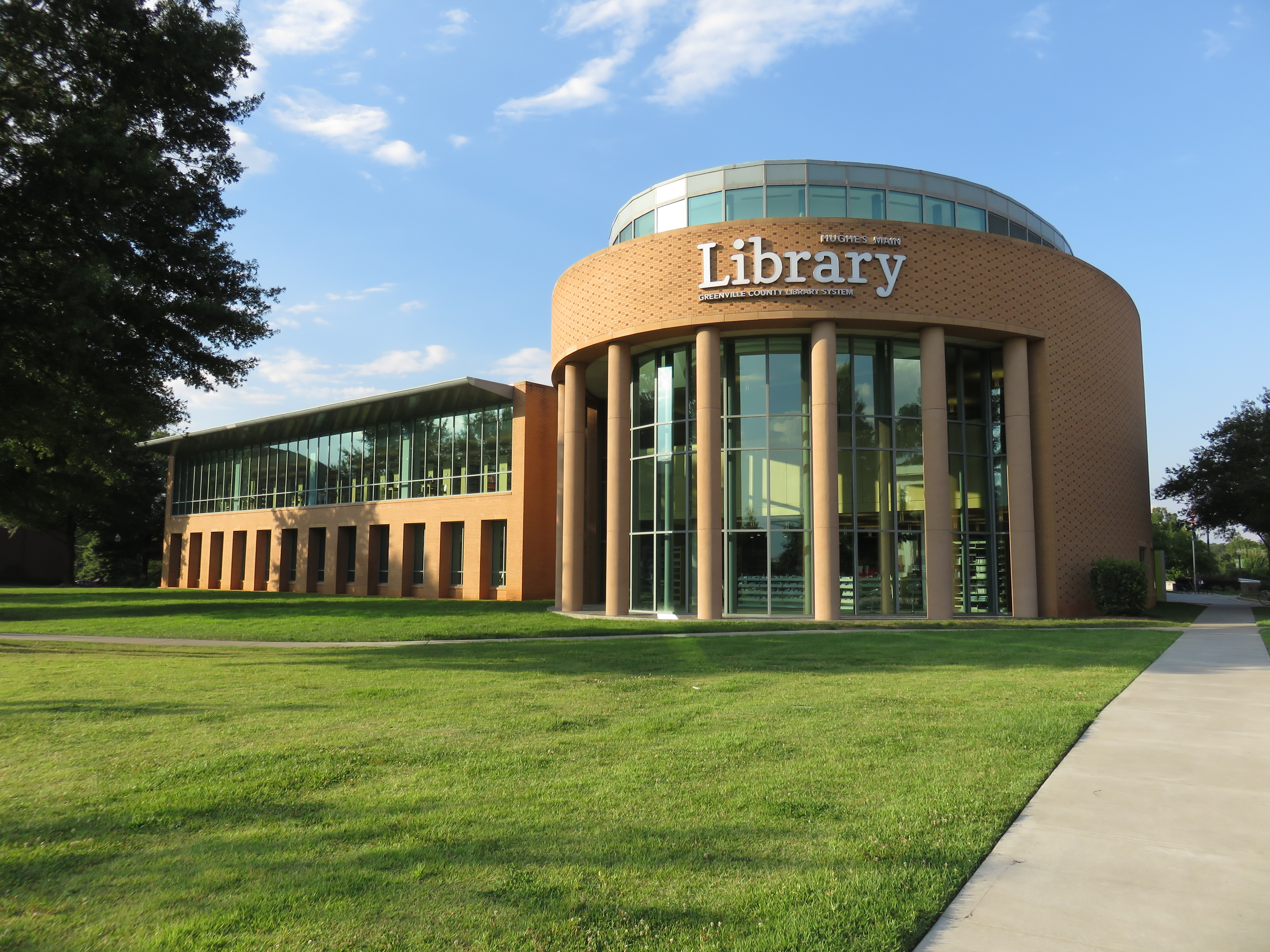 Hughes Main Library in Greenville, South Carolina in 2017